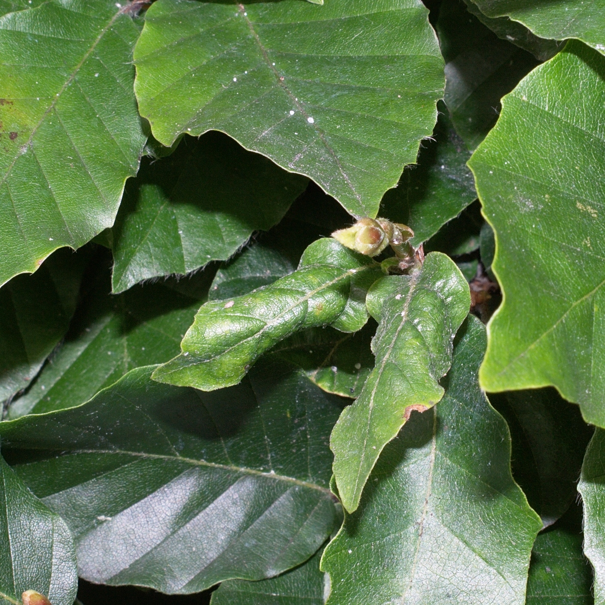 A beech hedge infested with woolly beech aphids show rolling leaves and brown spots indicating areas of dying plant tissue. The aphids which are located on the bottom of the affected leaves are not visible in this photograph.